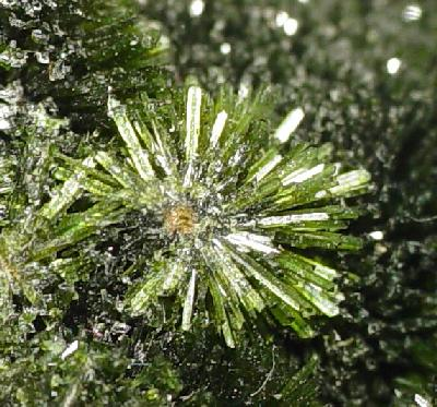 Olivenite Locality: Carharrack, Gwennap area, Camborne - Redruth - St Day District, Cornwall, England, UK (Locality at ) Size: miniature, 5.4 x 3.3 x 2.5 cm Olivenite A beautiful specimen with a rich rolling carpet of microcrystalline olivenite - but micros of top quality, gemmy and brilliantly lustrous! Classic material from the early to mid-1800s era, of Cornwall mining.